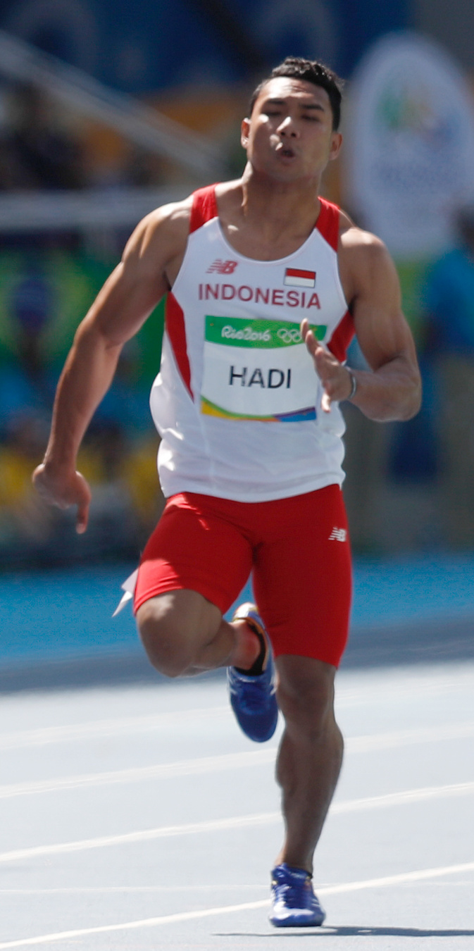 Men's 100 m sprint heats, Rio Olympics